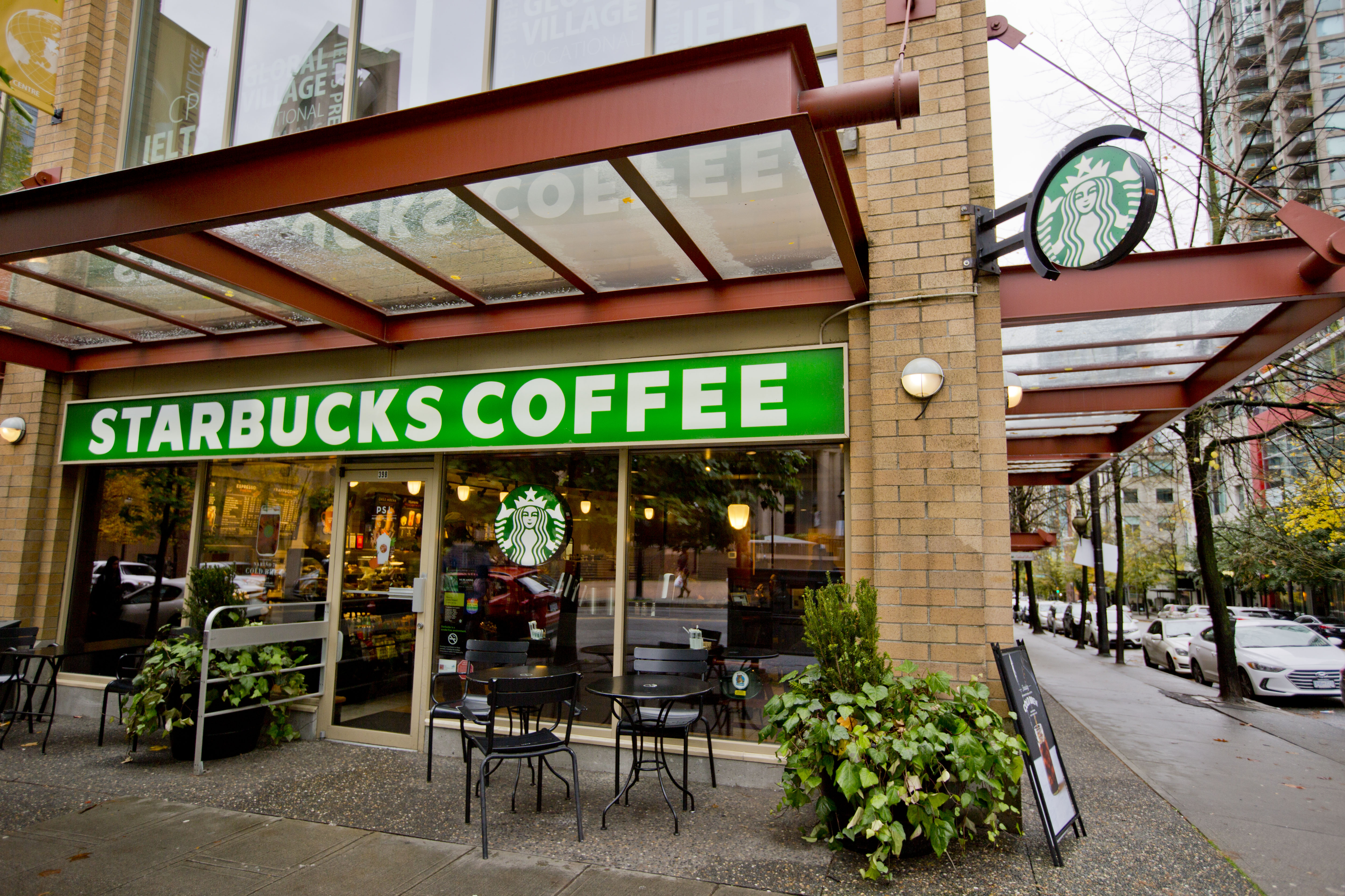 Starbucks Coffee